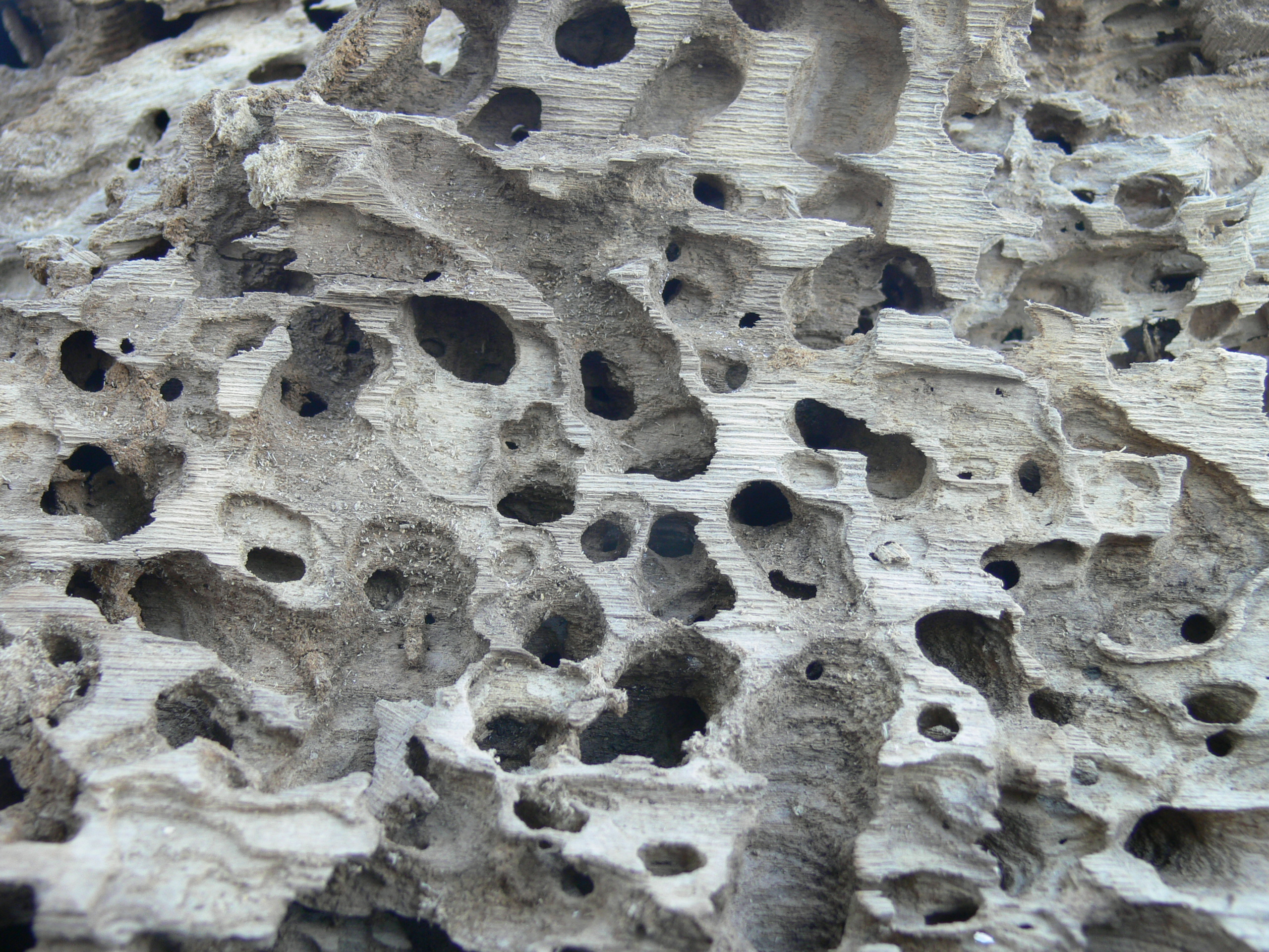 Heart of a tree damaged by a storm, and consumed by saproxylophages insects (beetles). Citadel of Lille, Lille, northern France.